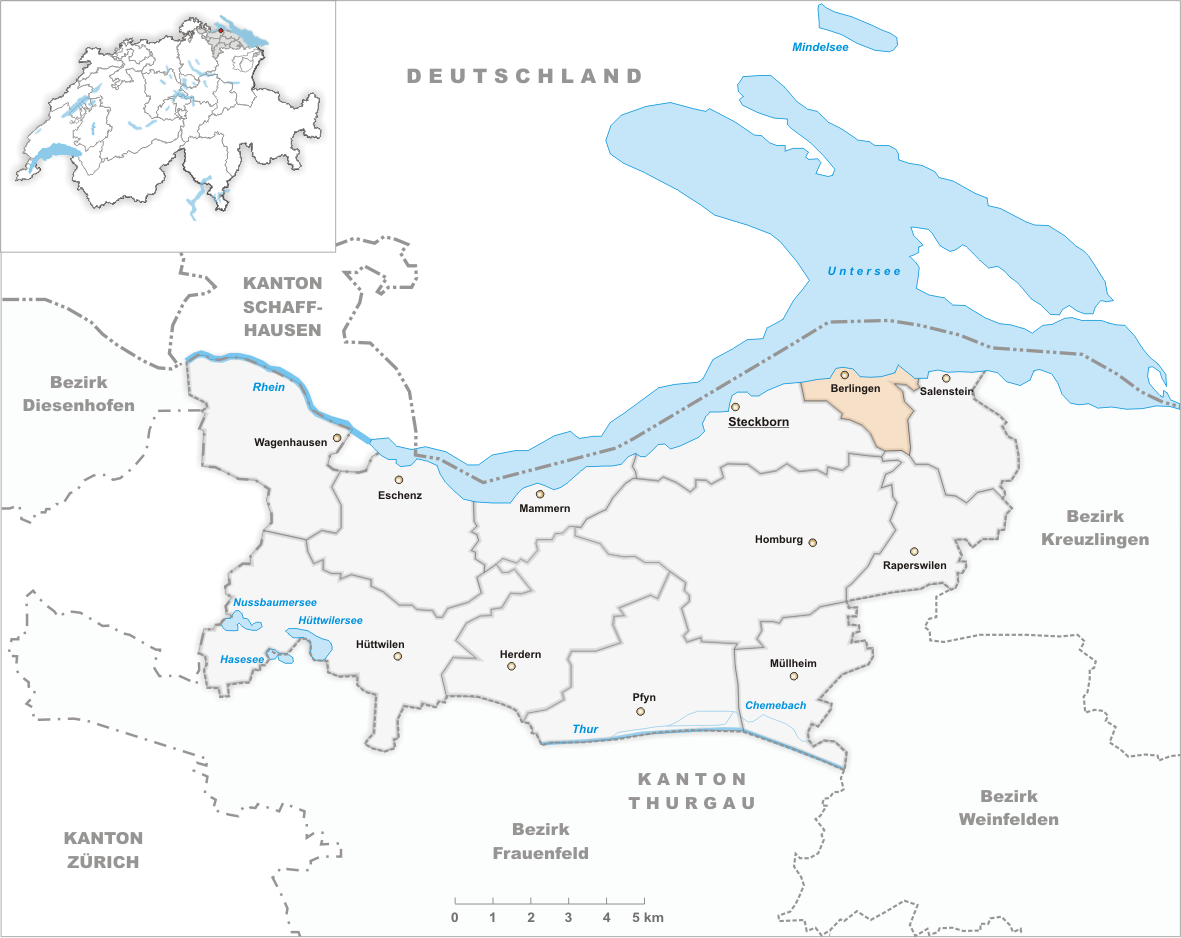 Municipality Berlingen